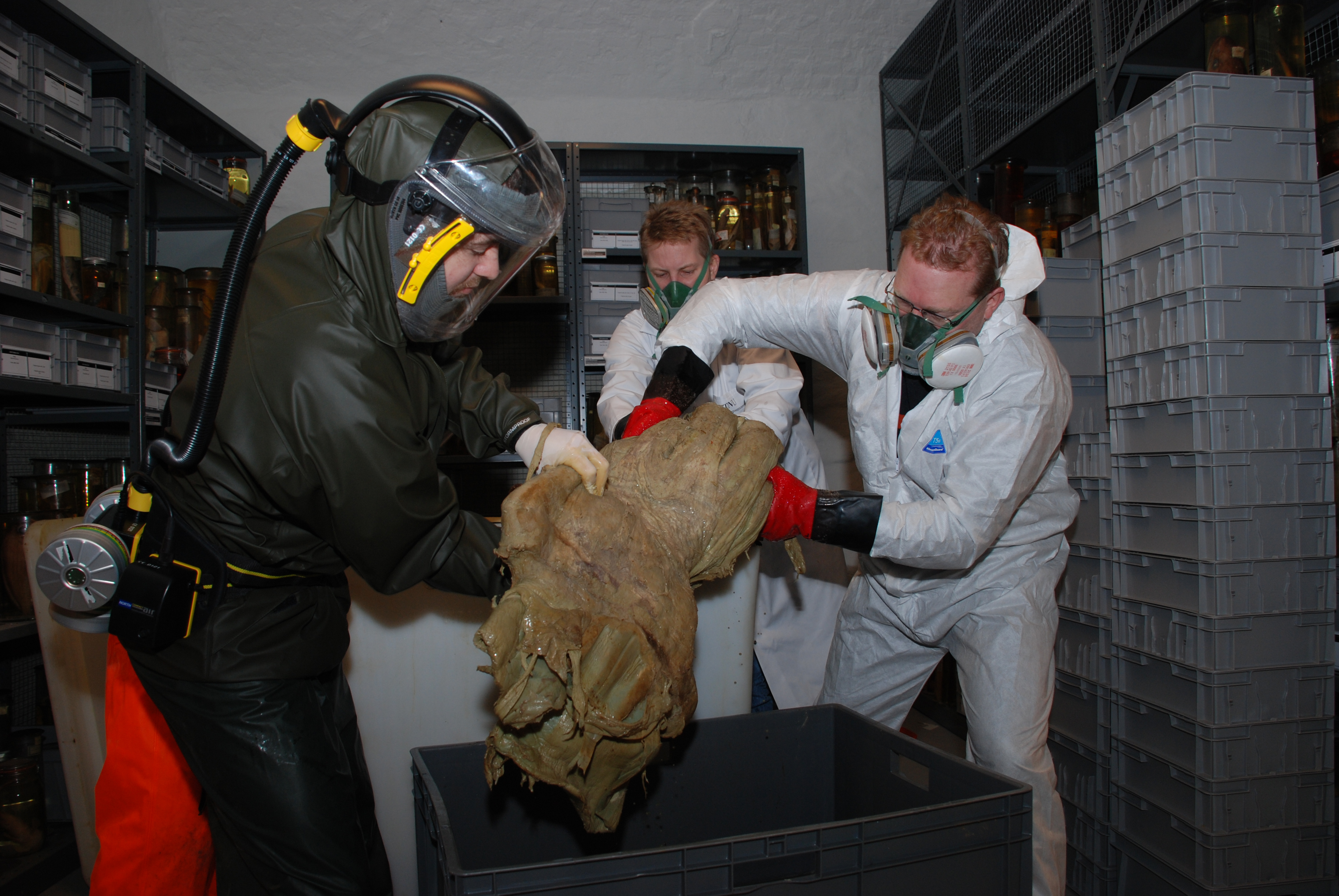 The box with the Museum’s specimens of giant squid was reopened for maintenance, to add new preservatives and for registration in the database. If used, please credit: Photo: Per Gätzschmann, NTNU Museum of Natural history and Archaology